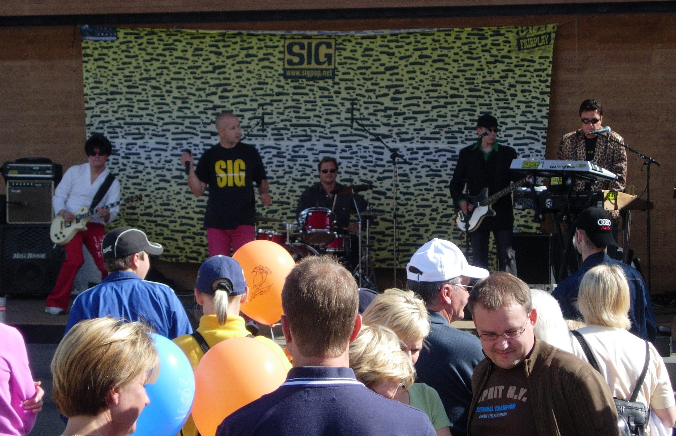 The Finnish rock band "SIG" on a gig in Raisio, Finland.